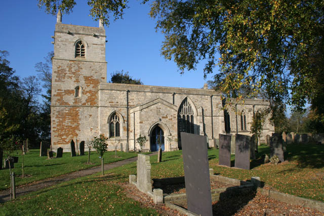 St Peter's parish church, Saltby, Leicestershire, seen from the south